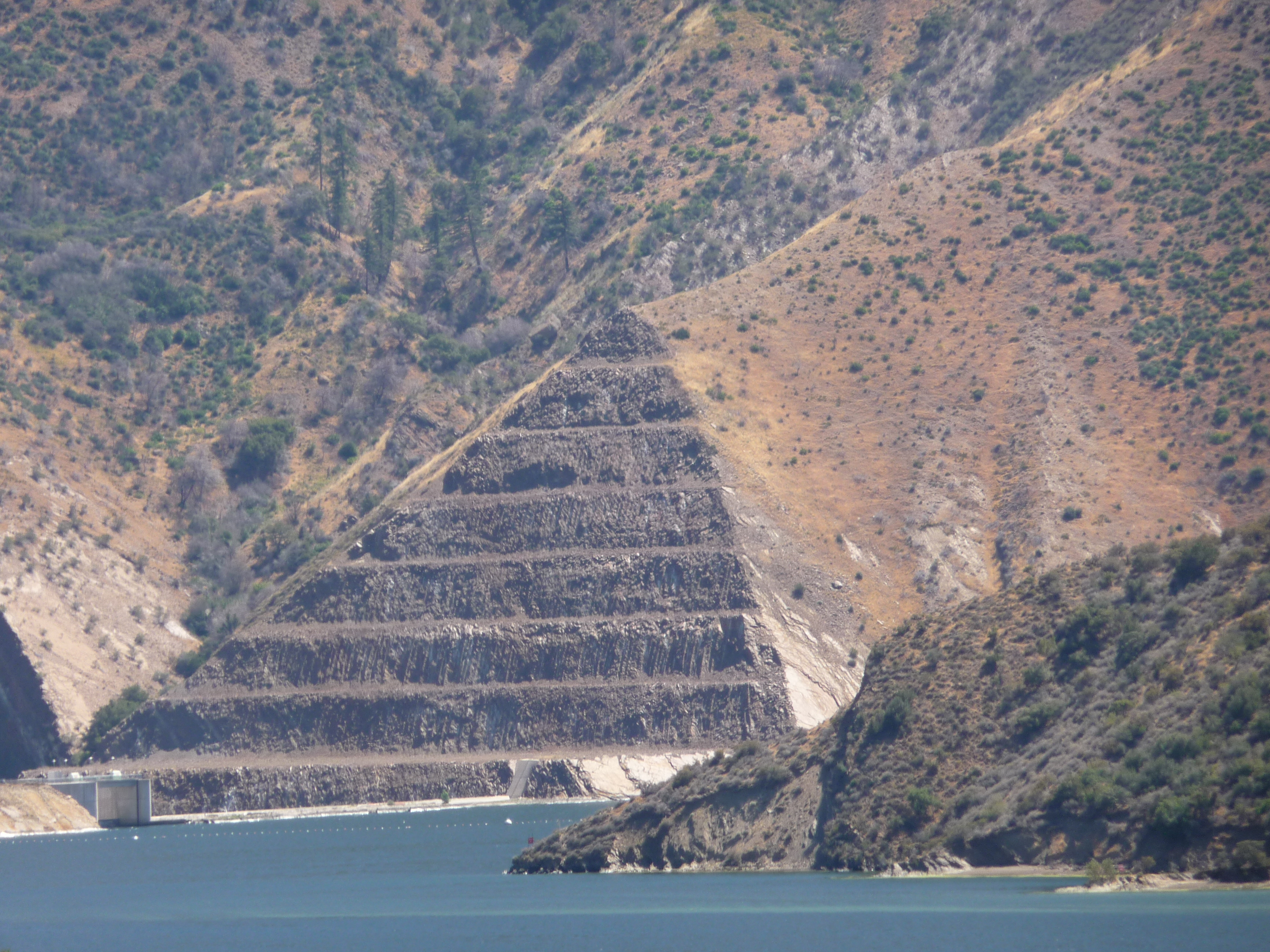 Pyramid Lake in Angeles National Forest off of Interstate 5 south. Picture Taken 26 Jun 2009